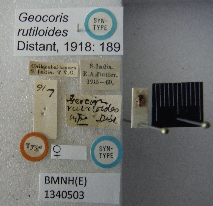 Specimen of Geocoris rutiloides